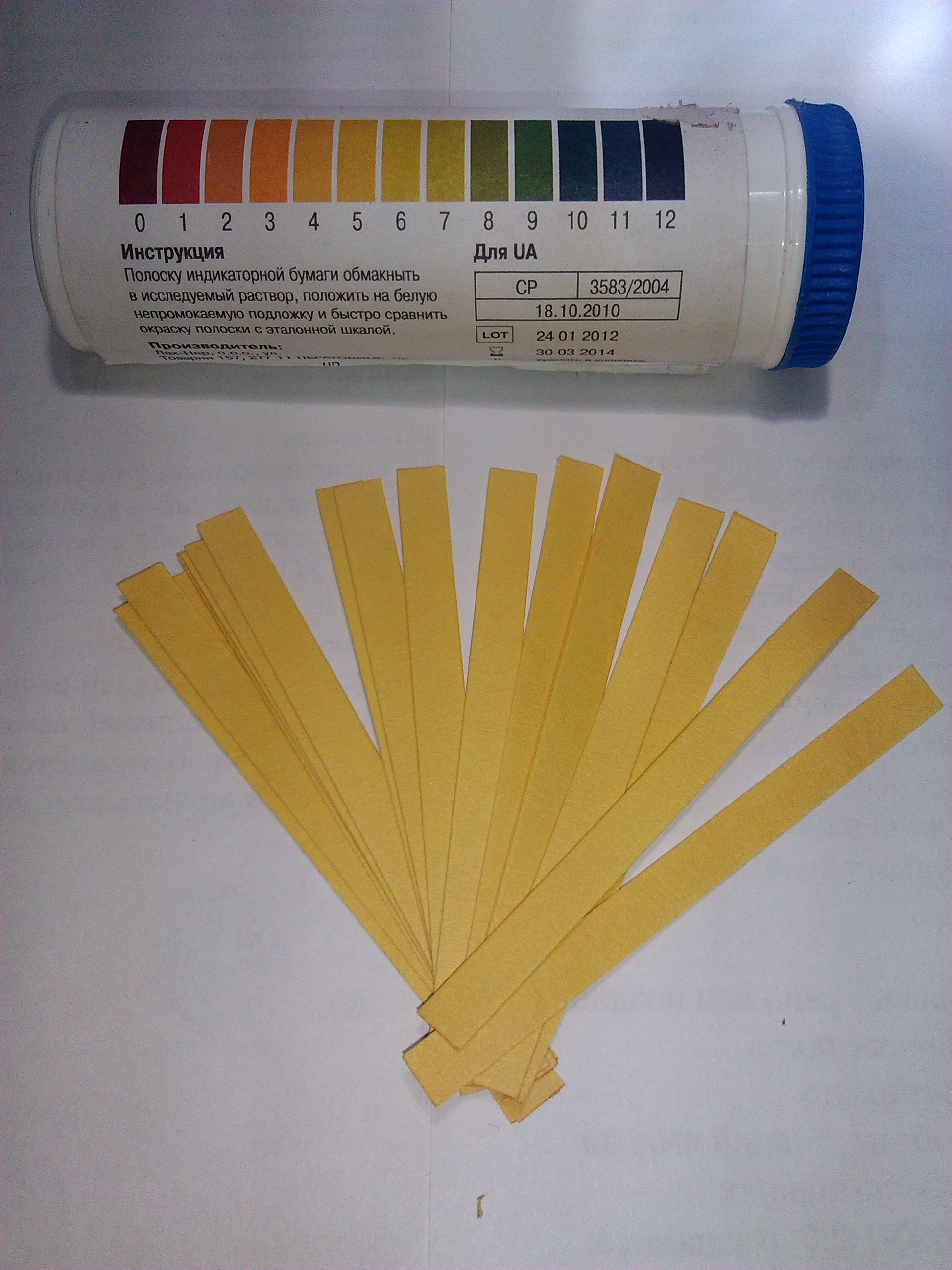 Universal PH indicator